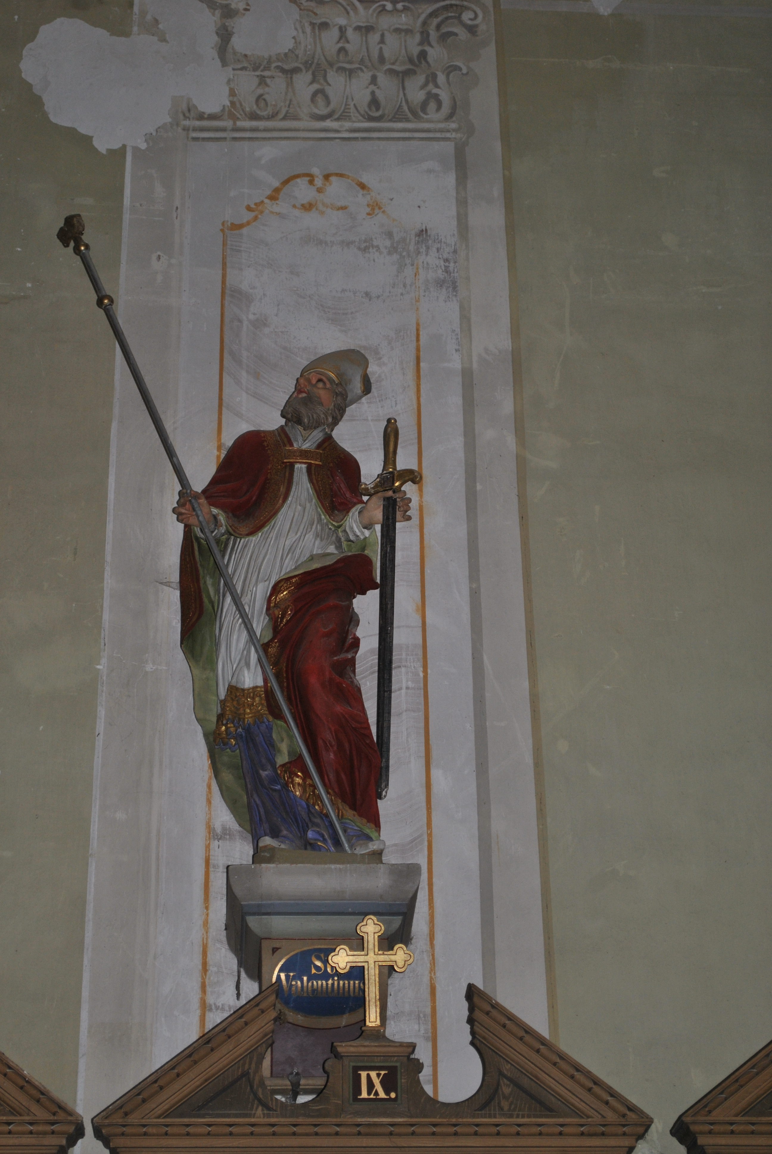 St. Valentin